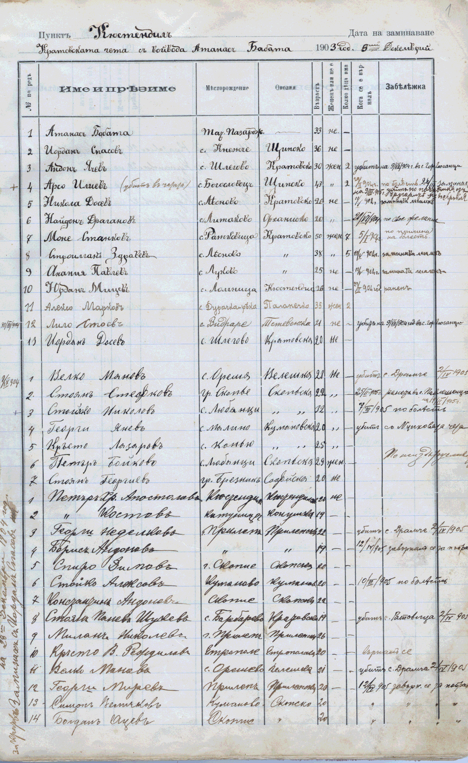 Diary of Kyustendil base of IMARO, list of chetas of Atanas Babata and Velko Manov which left to Macedonia on 1906